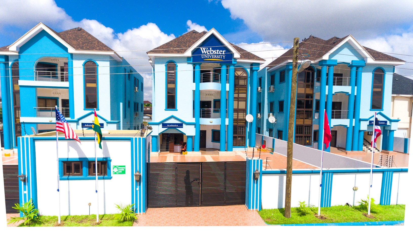 The current campus of Webster University Ghana, located at East Legon